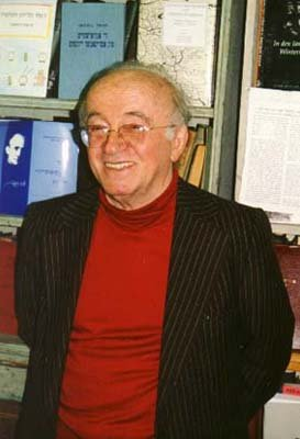 Dr. Mordkhe Schaechter, noted Yiddish linguist.